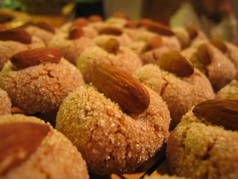 Liz's amaretti topped with almonds